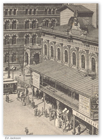 First DeGive Opera House (1870) doing business as Bijou Theatre. Demolished 1921.